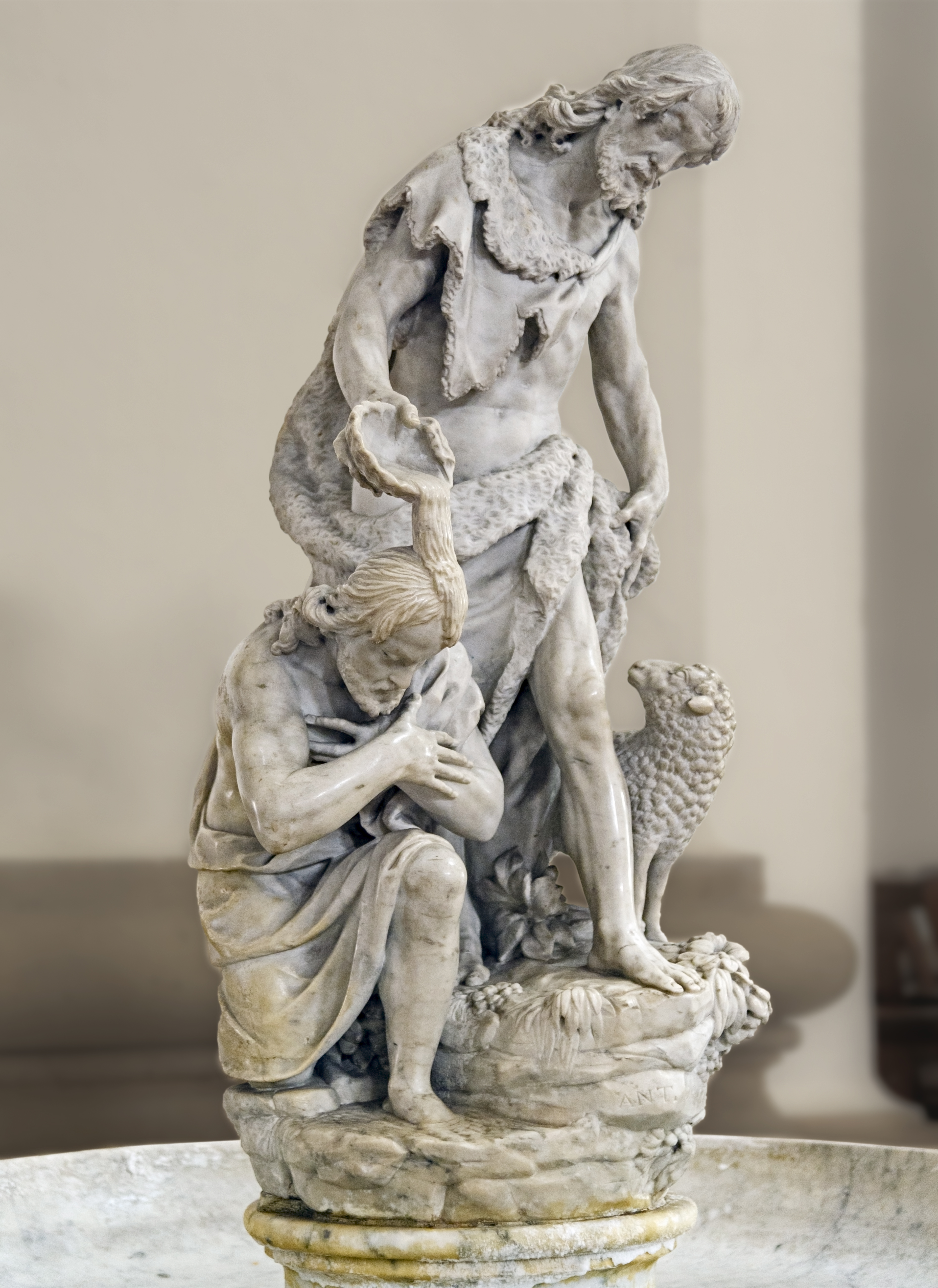 Statue qui orne, le bénitier de gauche